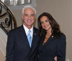 Picture from Biography of First Lady Carole Crist